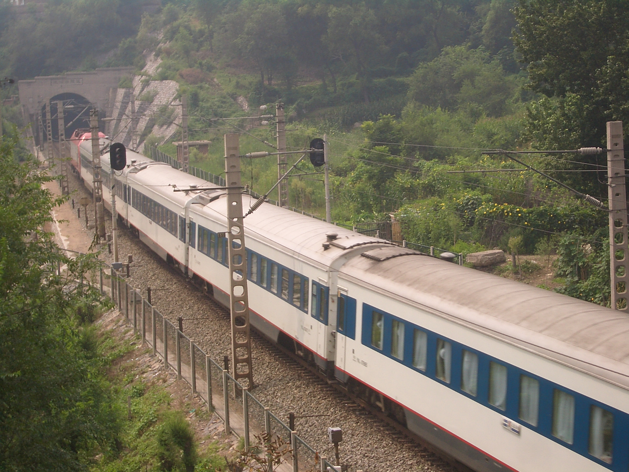 A passenger train approaching a tunnel in Fengtai District (west of Yongding River), on the southwestern outskirts of Beijing